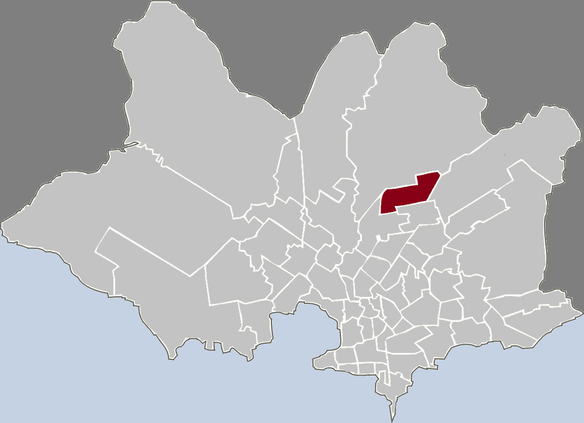 Map highlighting the given barrio in Montevideo.